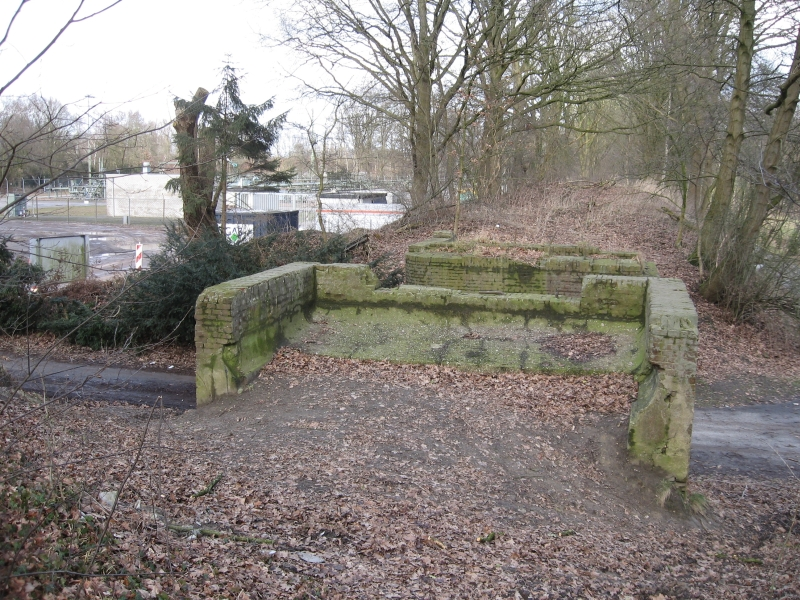 Remains of a former viaduct in the Denekamp - Oldenzaal tramway, Oldenzaal, Overijssel, The Netherlands